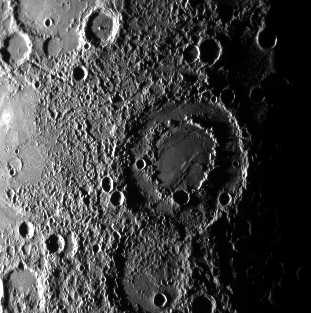 This image shows Caravaggio, a double-ring impact basin (approximately 160 kilometers in diameter), with another large impact crater on its south-south-western side. Smaller, more recent impacts formed comparatively fresh craters across the entire surface visible in this image. The floor within the inner or peak ring appears to be smoother than the floor between the peak ring and the outer rim, possibly the result of lava flows that partially flooded the basin some time after impact. Double-ring basins are formed when a large meteoroid strikes the surface of a rocky planet.